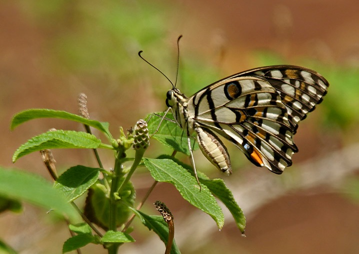 Lime Butterfly Papilio demoleus in Hyderabad , India.